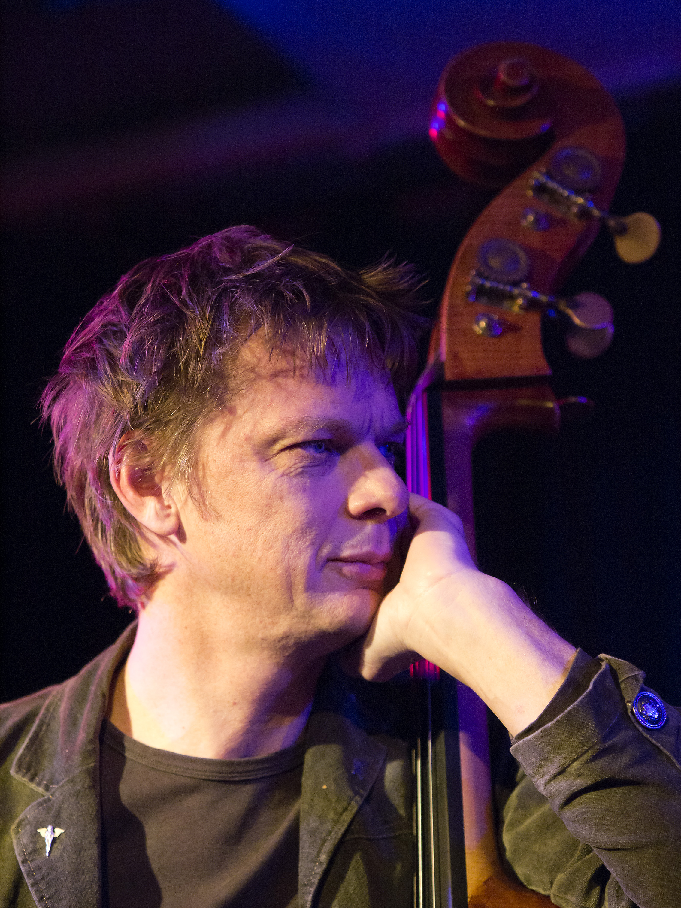 Tony Overwater, Jazz bassist; Picture taken in Jazz Club Unterfahrt, Munich/Bavaria